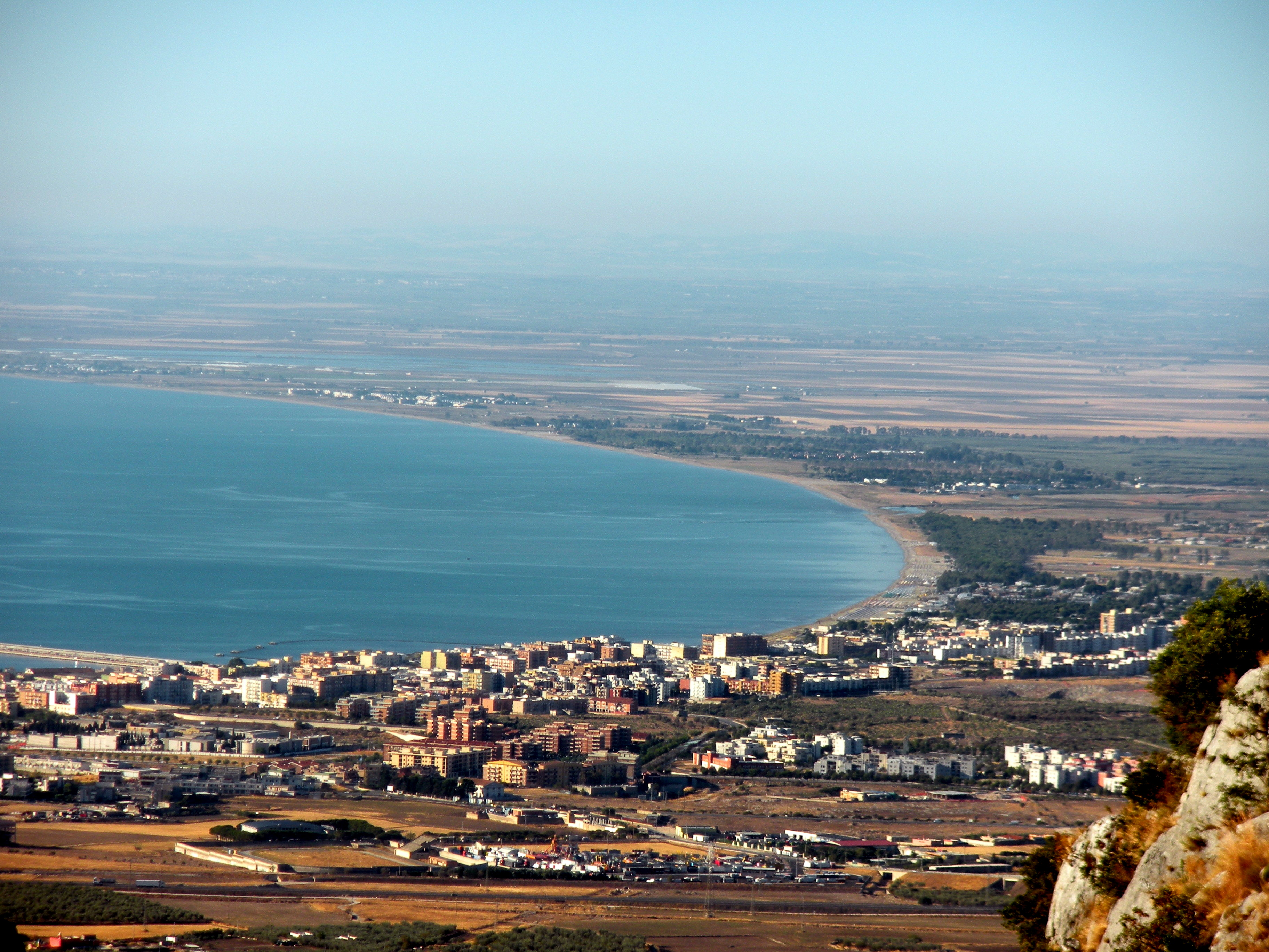 Manfredonia, panoramic view - S. Iaconeto